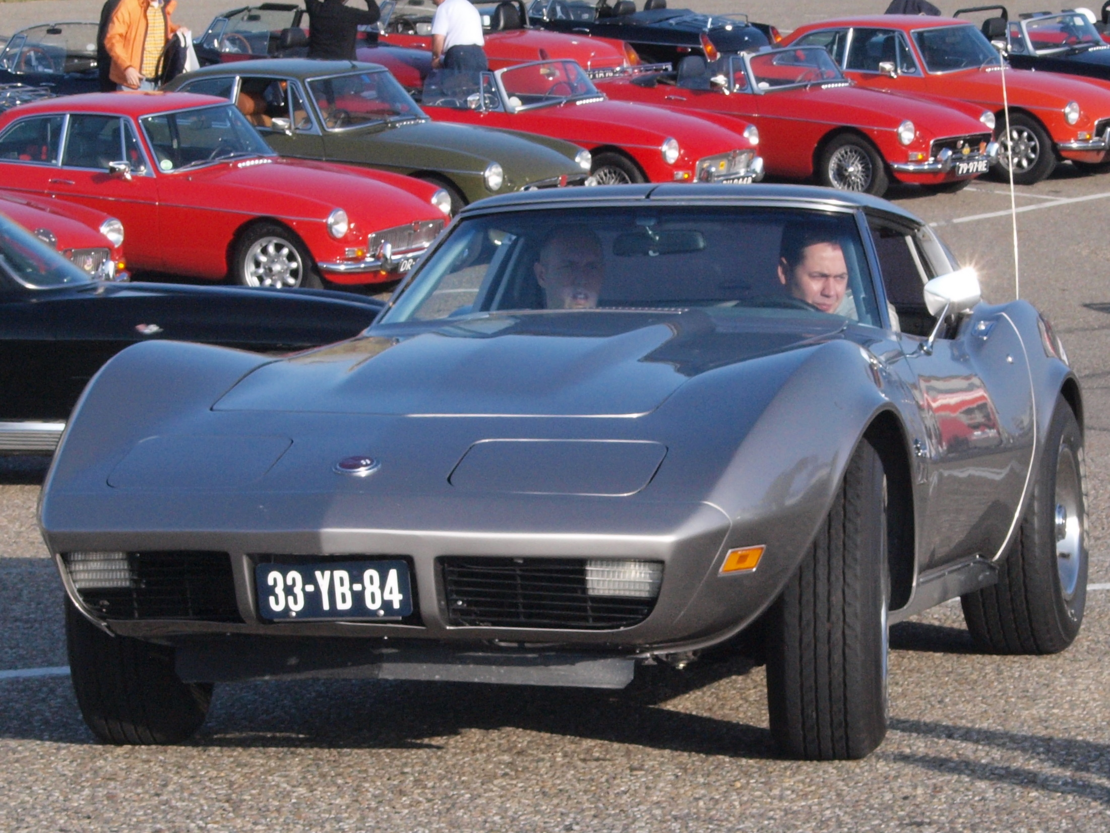 Photographed at the Nationaal Oldtimer Festival Zandvoort 2009, The Netherlands. OLYMPUS DIGITAL CAMERA